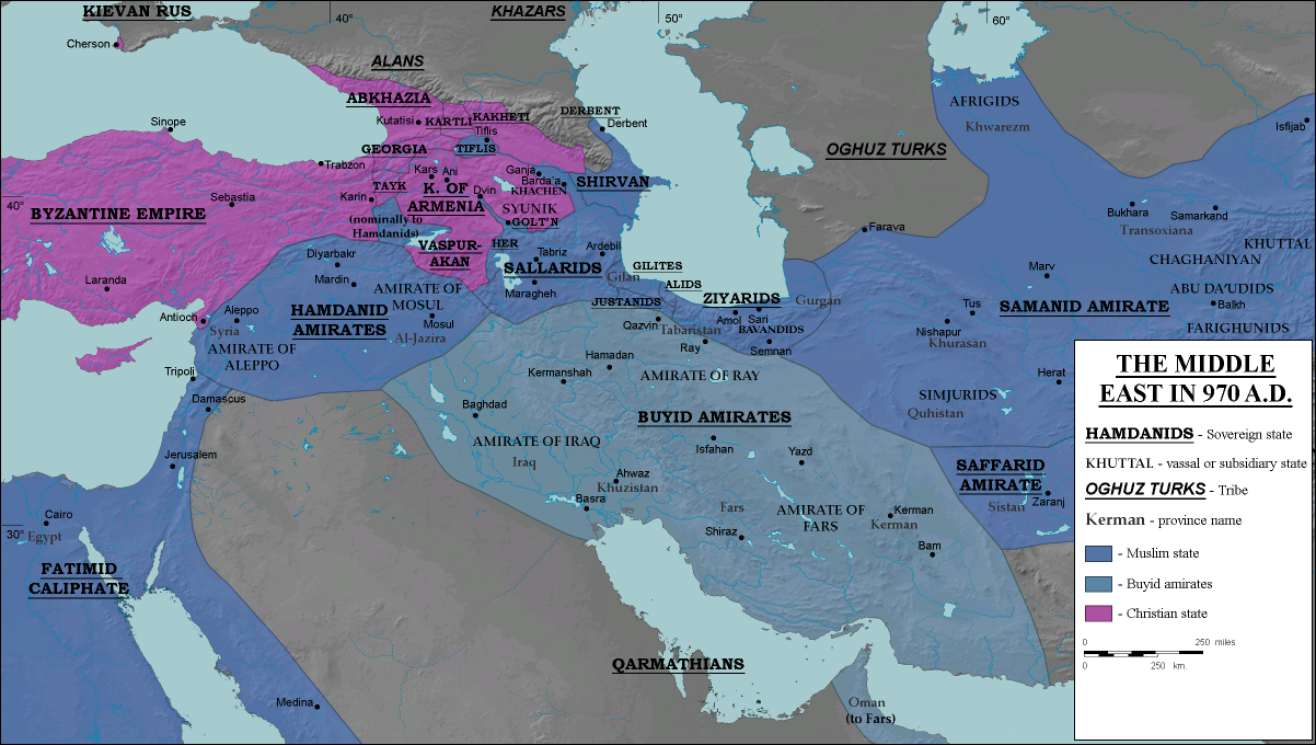 The domains of the Buyid dynasty highlighted among other Muslim (blue) and eastern Christian (purple) states, ca. 970 CE